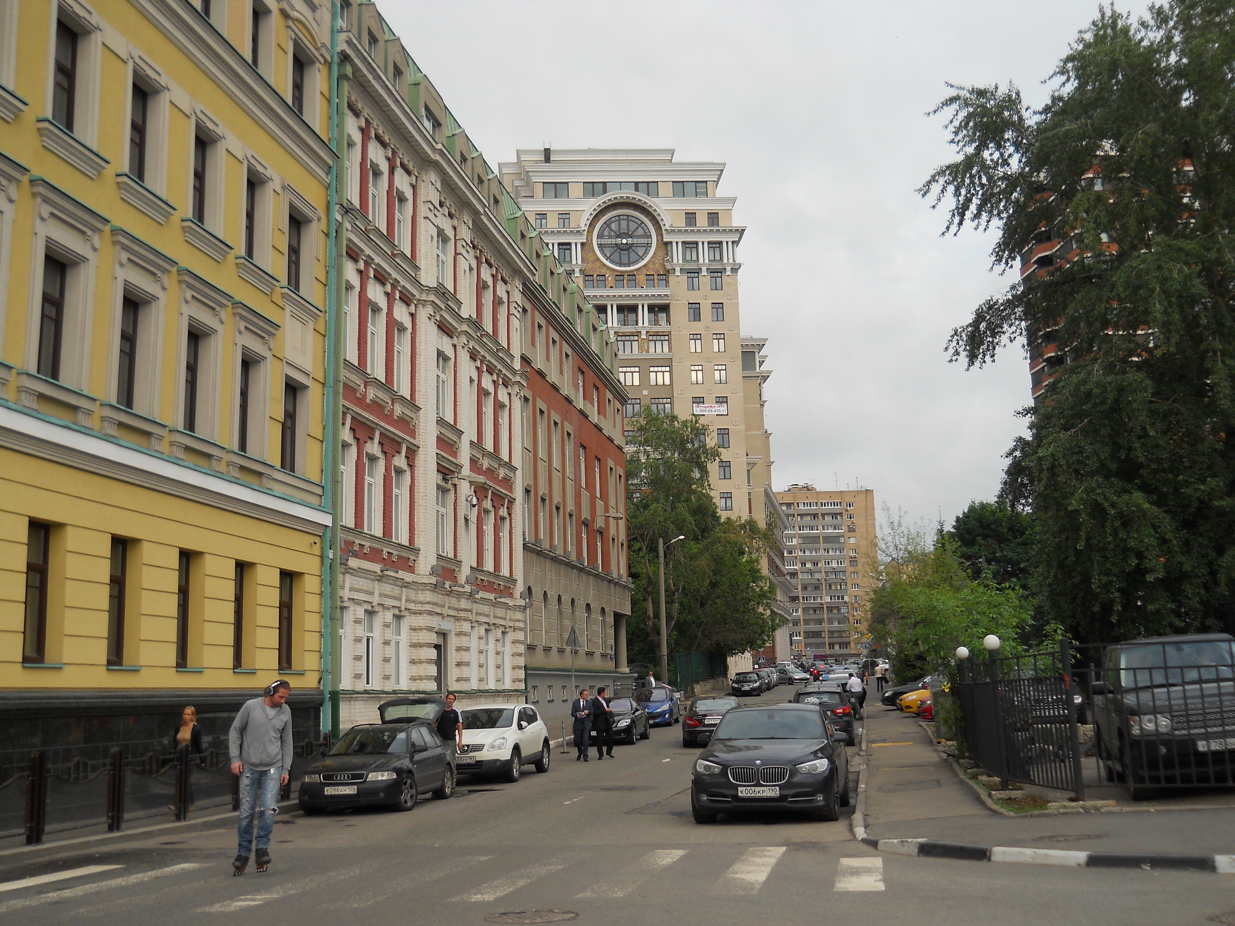 3rd Golutvinsky Lane, Moscow. Heading east.